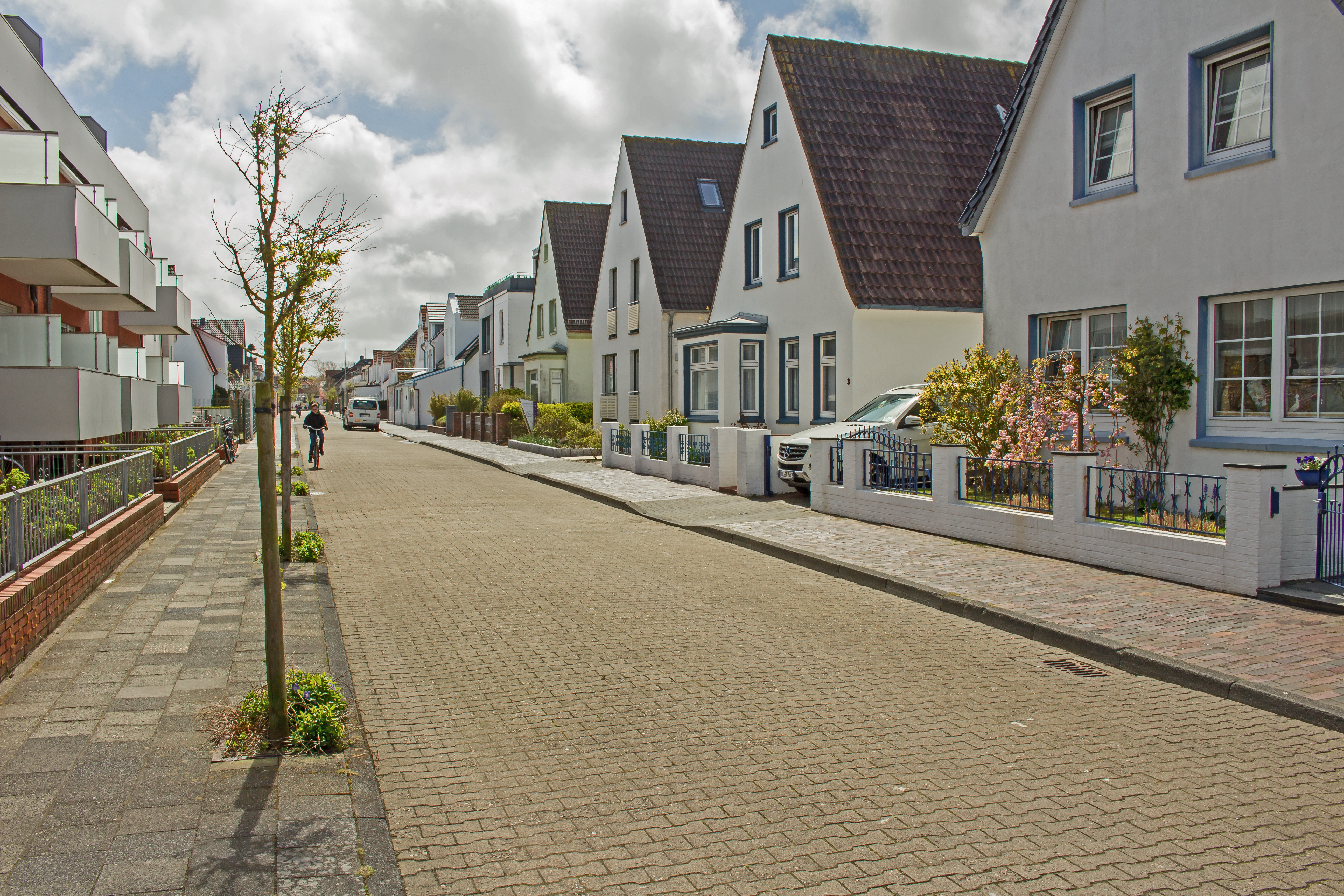 streetcape of Wiedaschstraße - Norderney, Lower Saxony, Germany